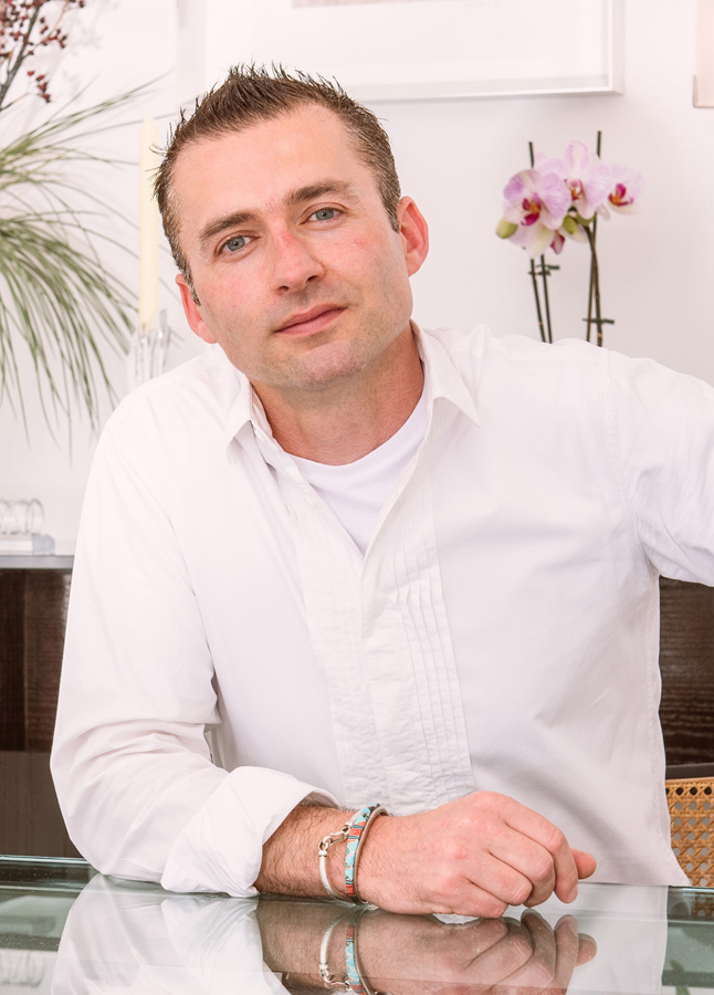 Portrait of Marcus Notley